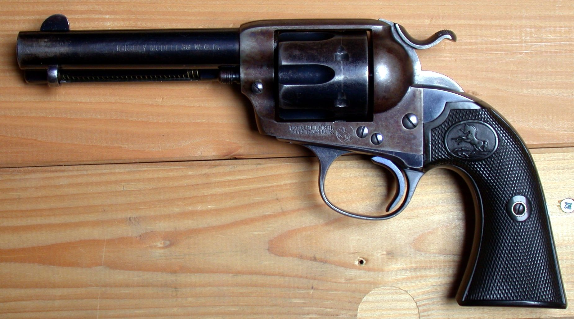 Colt Bisley cal .38-40